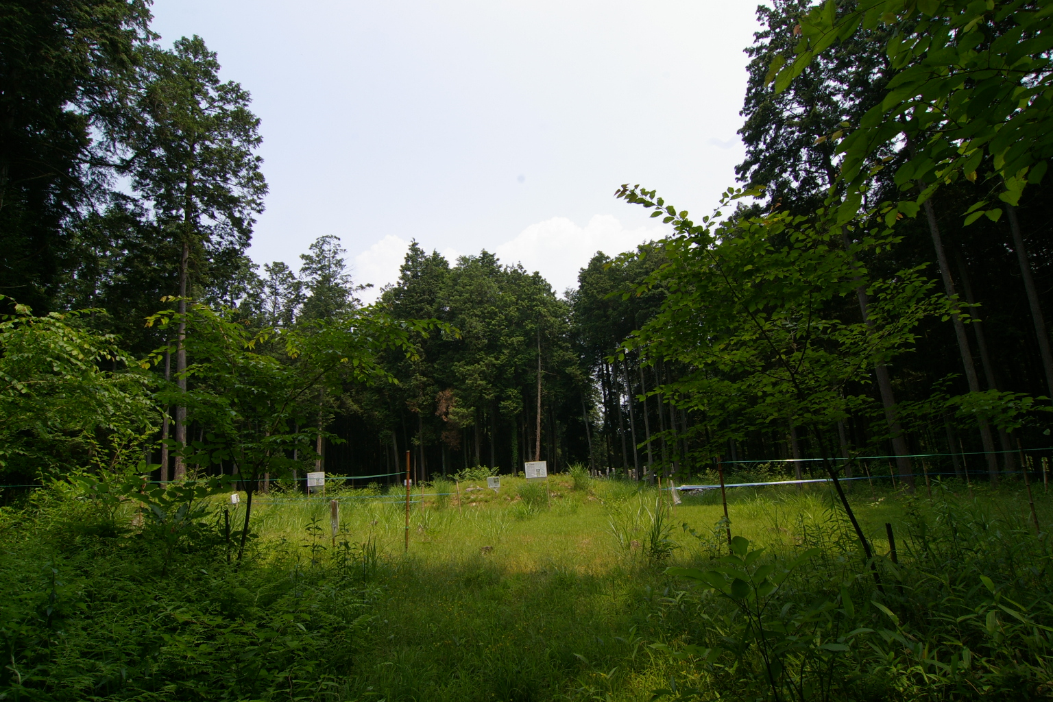 The remains of temple. Ena Japan.